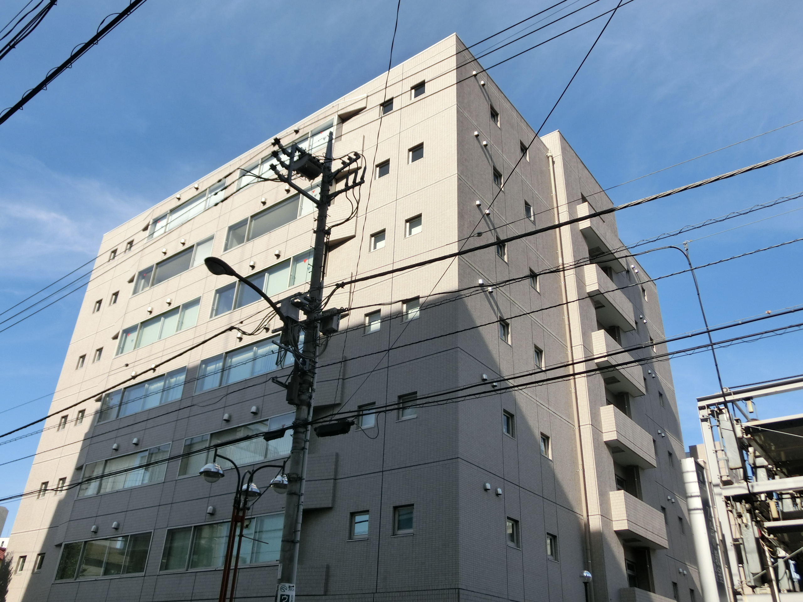 Issei Building